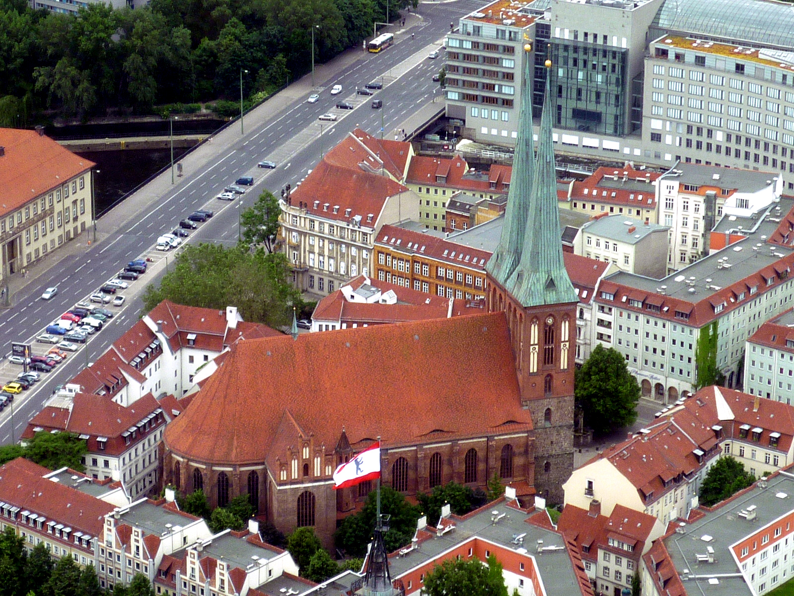 Nikolaikirche in Berlin, Germany